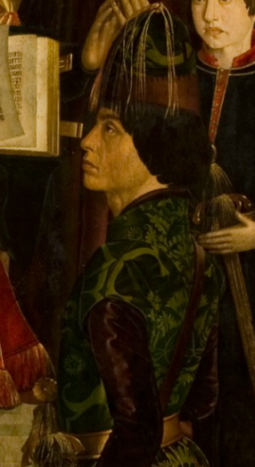 Detail of kneeling king in the "Panel of the Prince" (third panel of the St. Vincent panels, usually dated c.1470, attributed to painter Nuno Gonçalves). Figure is most commonly identified as King Afonso V of Portugal (aged 38 in 1470), the identification currently proposed by the Museu Nacional de Arte Antiga (MNAA) in Lisbon, the holder of the panels. A recent controversial book (Almeida and Albuquerque, 2000) disputes this identification, dates the painting 1445 and proposes instead it is an image of his father King Edward of Portugal (D. Duarte) (died 1438 at age of 47).